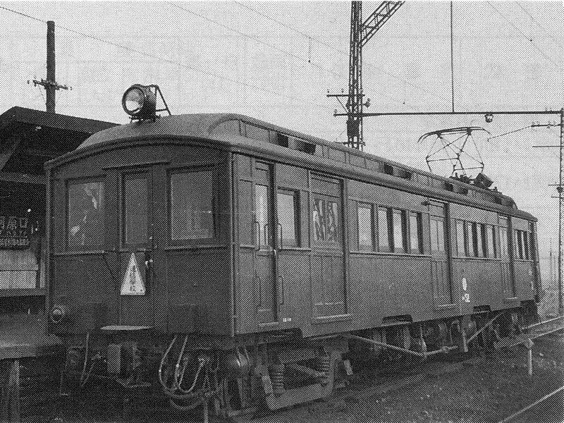 Odawara Express Railway No.52,EMU Type 51